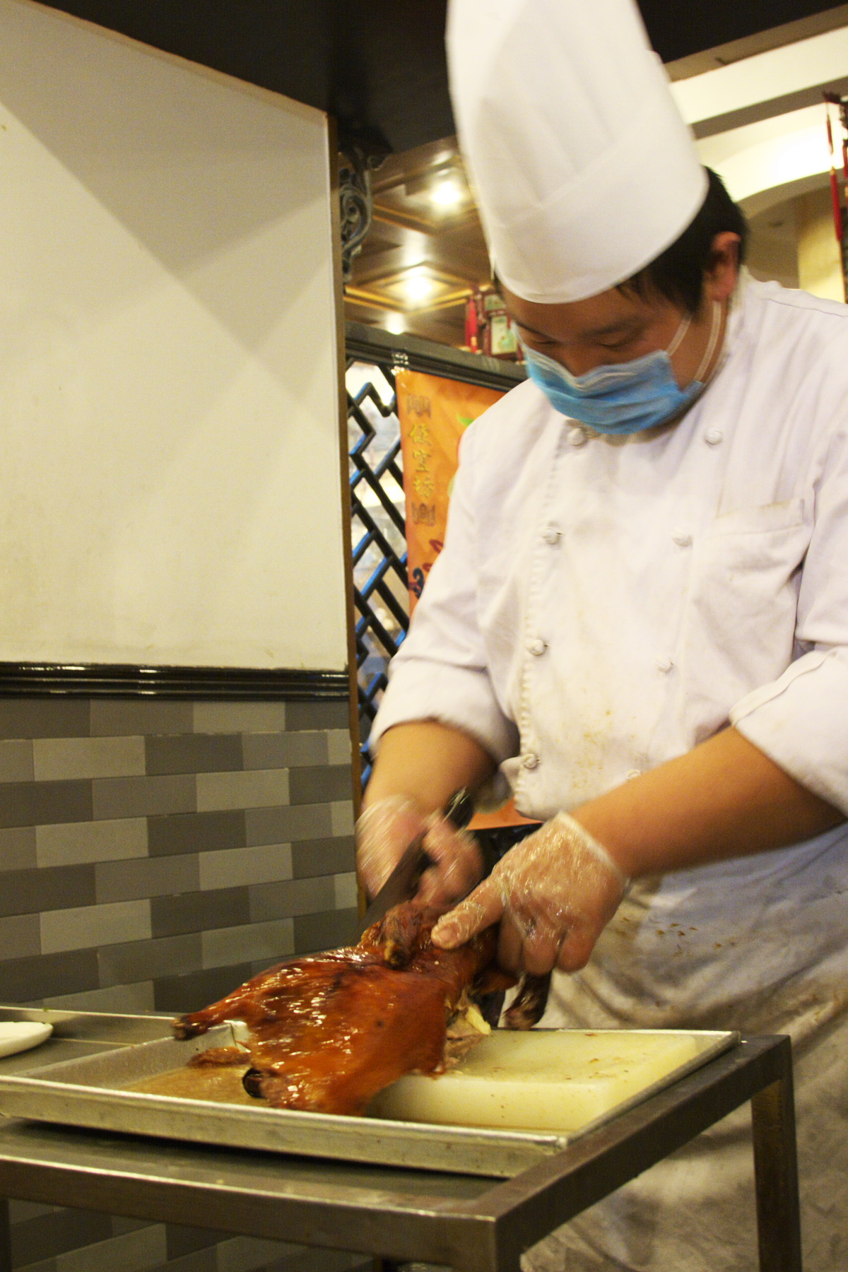 Serving the Peking Duck at the Bianyifang restaurant in Beijing.